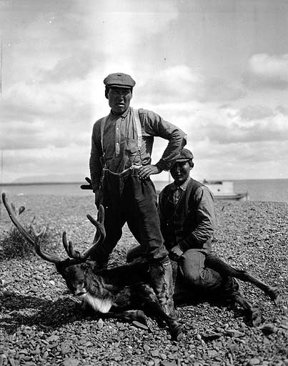 From John Cobb field notebook: Native with reindeer, Iliamna Lake, Alaska. Jul 26, 1917 Subjects (LCTGM): Eskimos--Subsistance activities Subjects (LCSH): Eskimos--Alaska--Iliamna Lake; Reindeer-Alaska--Iliamna Lake